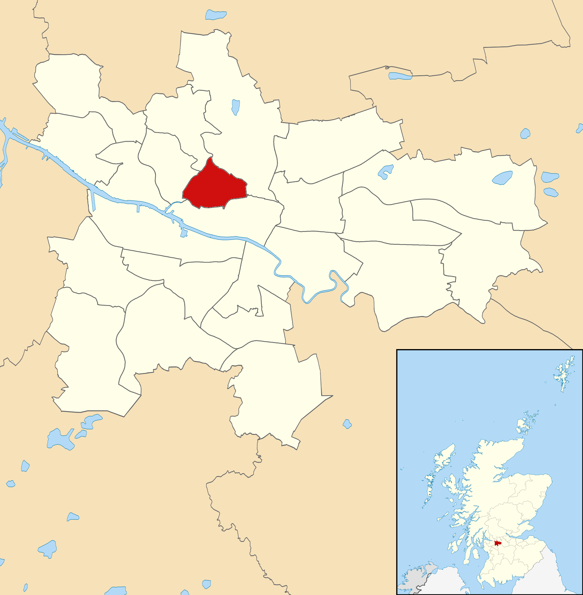 Map of Glasgow wards with Hillhead (ward 11) highlighted